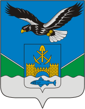 Nikolaevsk-na-Amure (Khabarovsk kray), coat of arms (2002)